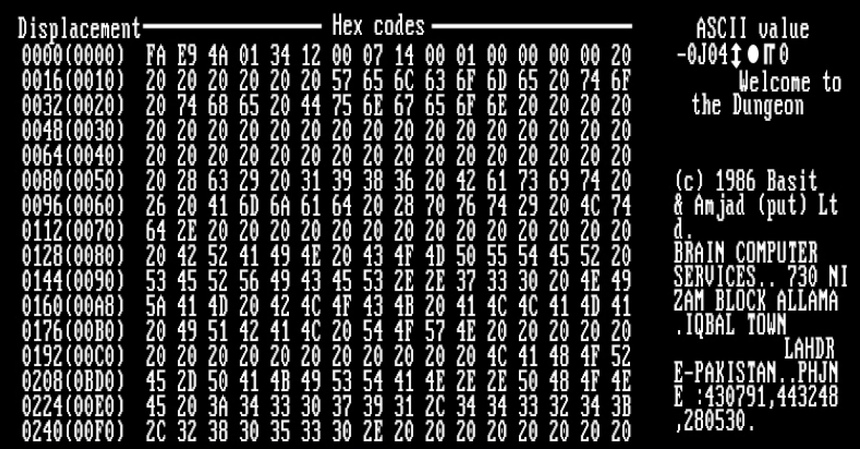 Details of this photograph include (1) it is the hex dump of the boot sector of a floppy (A:) containing the first ever PC virus, Brain, (2) PC Tools Deluxe 4.22, a file manager and low-level editor, was being used (3) the PC was a 8088 running at 8 MHz and had 640 Kb of RAM (4) the graphics card was a CGA (4 colours at 320×200)